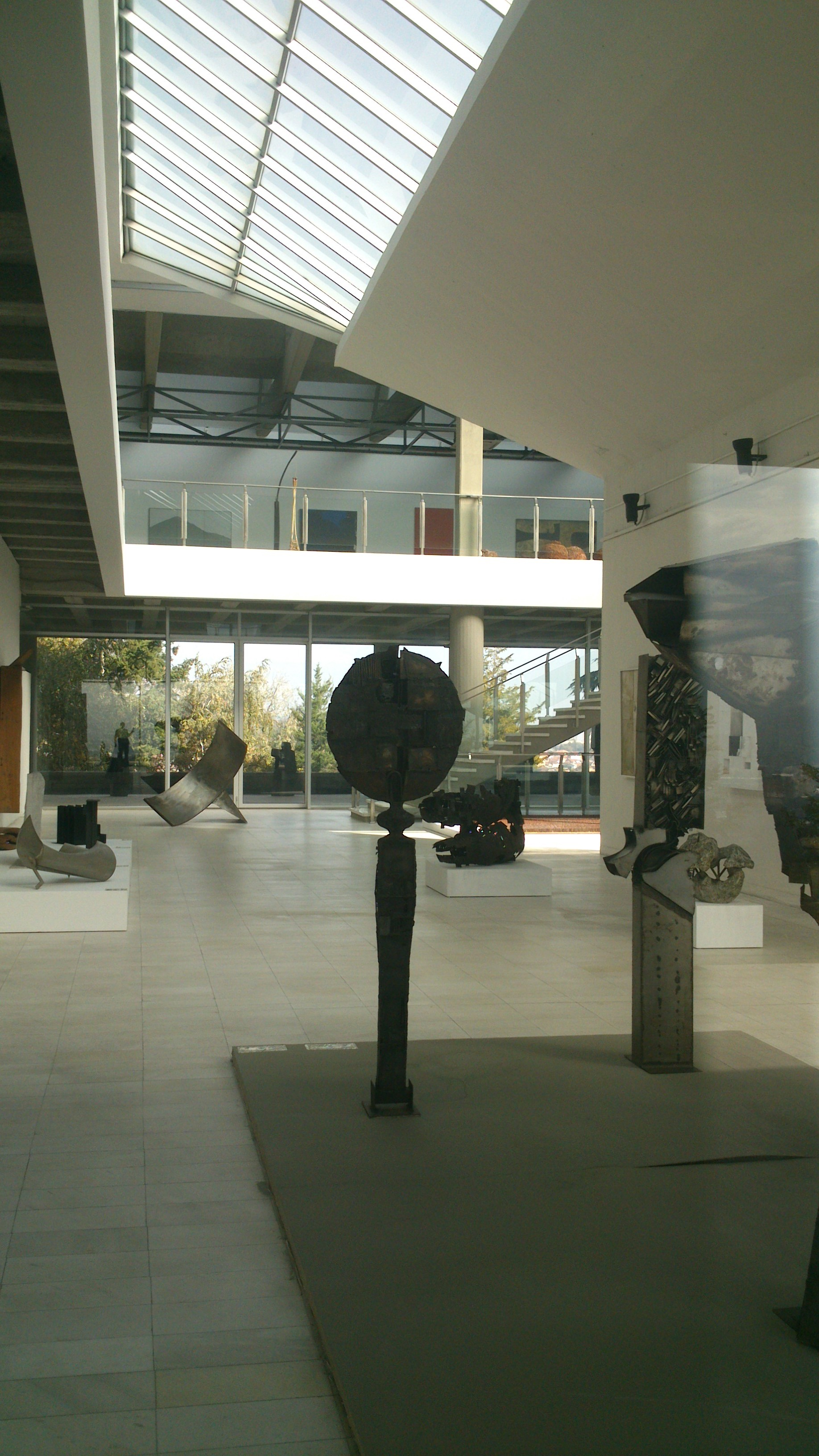 The Museum of Contemporary Art in Skopje, Macedonia Ова е фотографија на споменик на културата во Македонија со типски код: B08This is a a photo of a cultural monument in North Macedonia with type id: B08